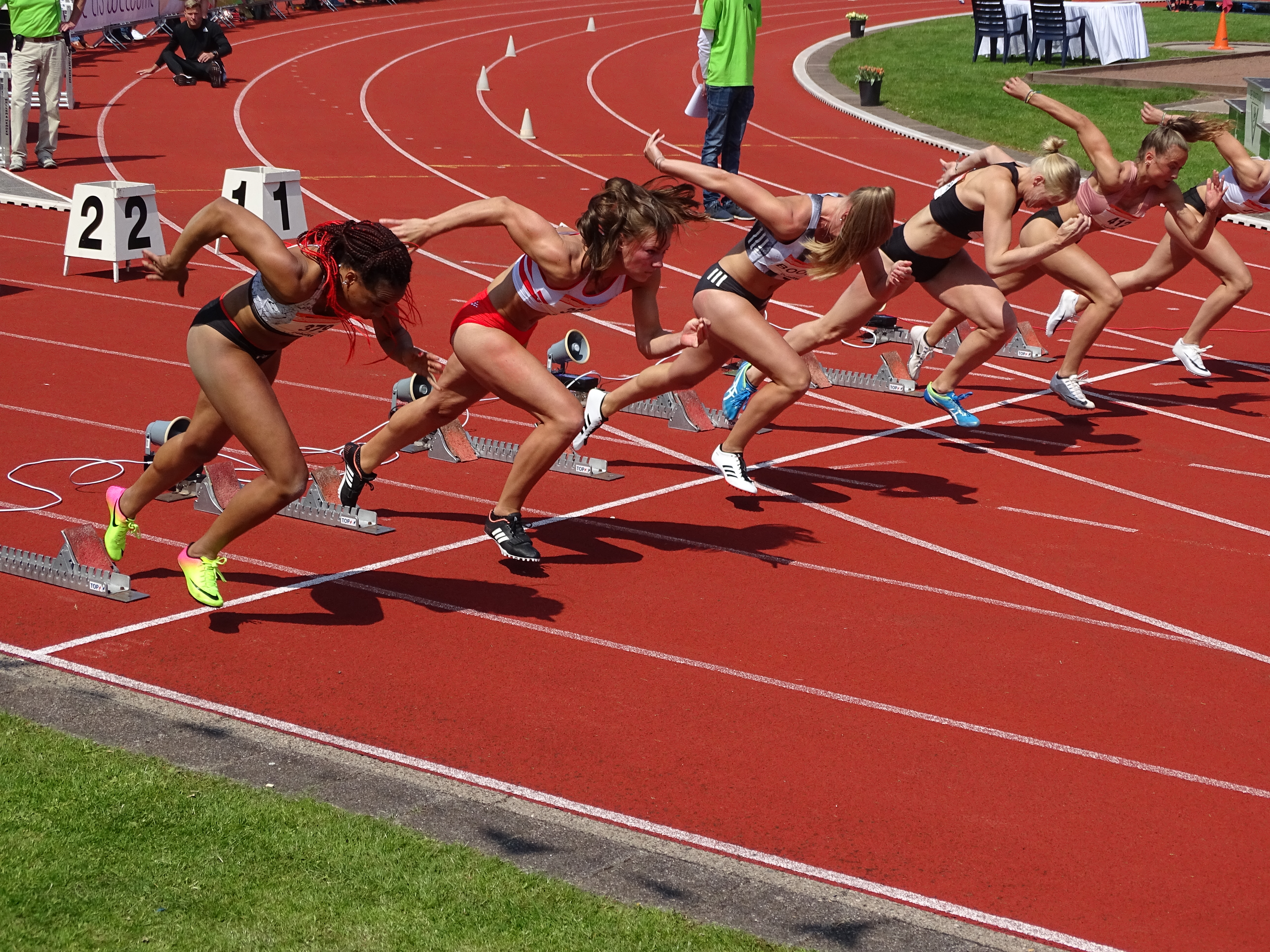 100 metres hurdles start for women with Eefje Boons (3rd from the left) at the 2019 Ter Specke Bokaal in Lisse.